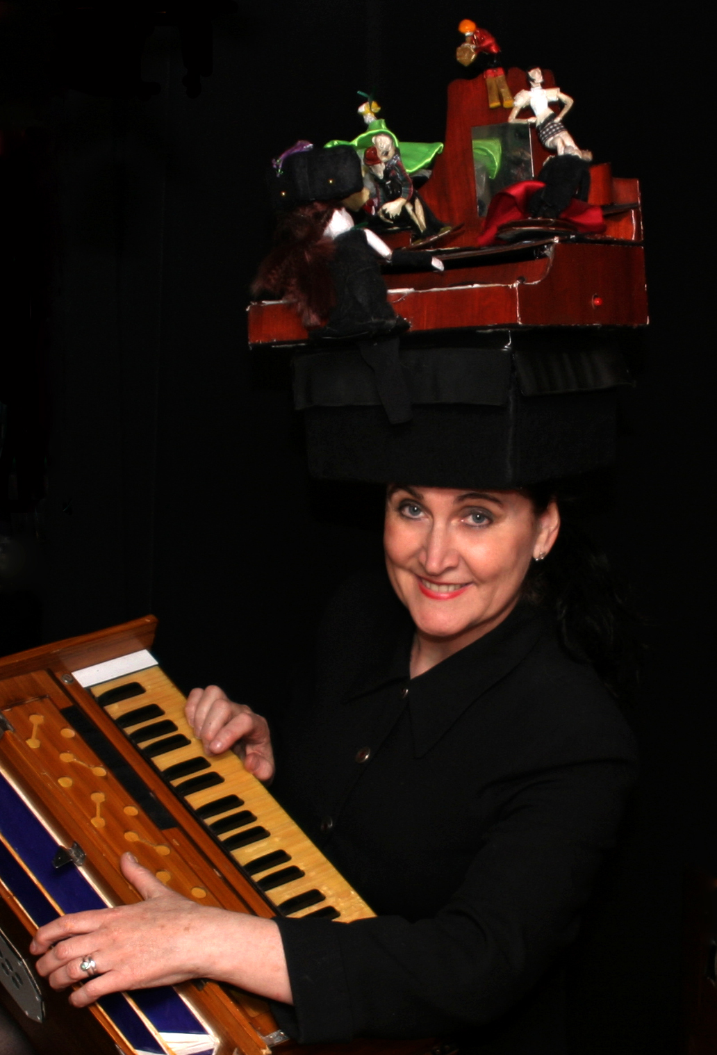 Photo of Jane Bom-Bane by Diana Franghi